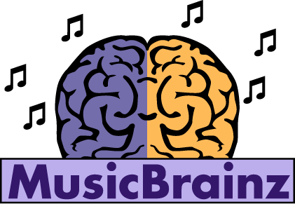 MusicBrainz Logo, cropped from the original.